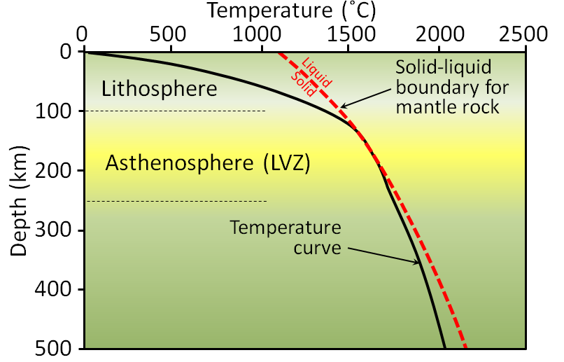 Black line: dependence of temperature on depth. Red dashed line: the melting temperature of mantle rock as a function of depth.